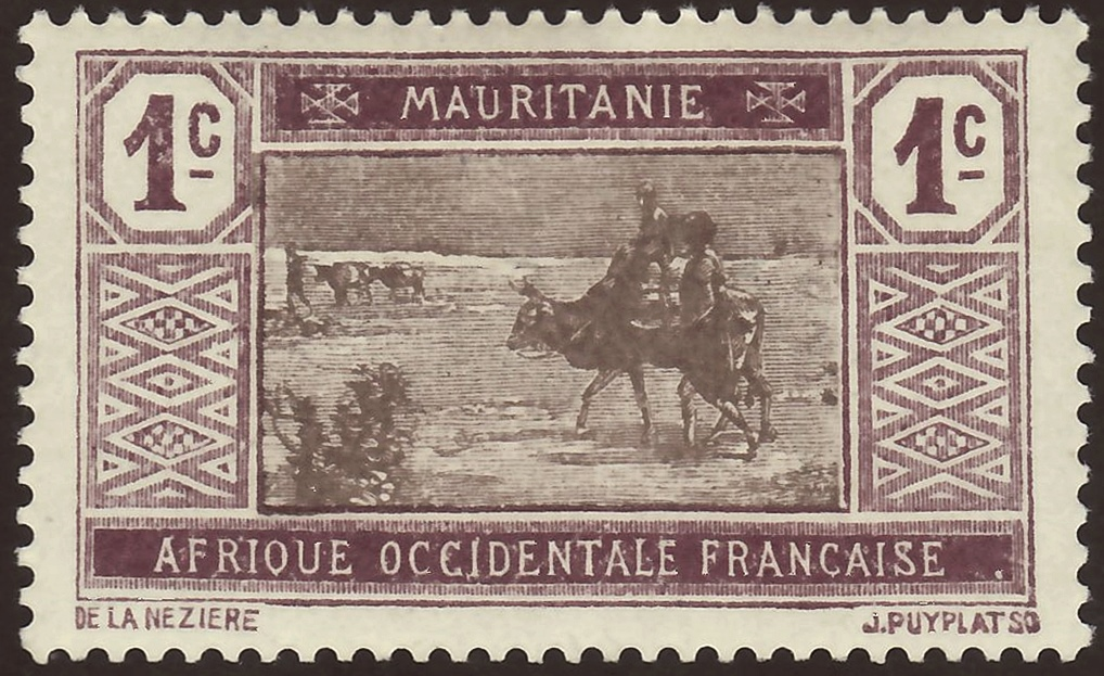 Stamp of Mauritania as semi-autonome protectorate of French West Africa ("Afrique-Occidentale française", A.O.F.); 1913; definitive stamp of the "Crossing desert" issue; framed drawing with desert landscape as central motive; mint stamp with smooth gum Stamp: Michel: No. 17; Yvert et Tellier; No. 17 Color: dark brown / mauve to lilac brown Watermark: none Nominal value: 1 C (Centime) Postage validity: from 1913 until ? Stamp picture size (printed area without below signature line): 35.5 x 20.5 mm